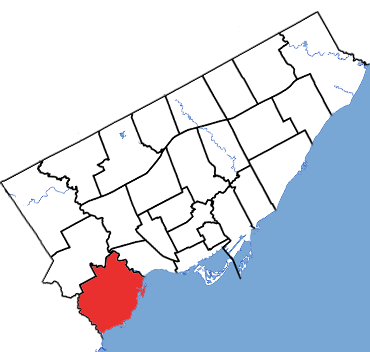 Etobicoke-Lakeshore in relation to the other Toronto ridings (2015 boundaries)